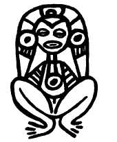 Reproduction of petroglyph of Atabey, found in the Ceremonial park of Caguana. Puerto Rico.